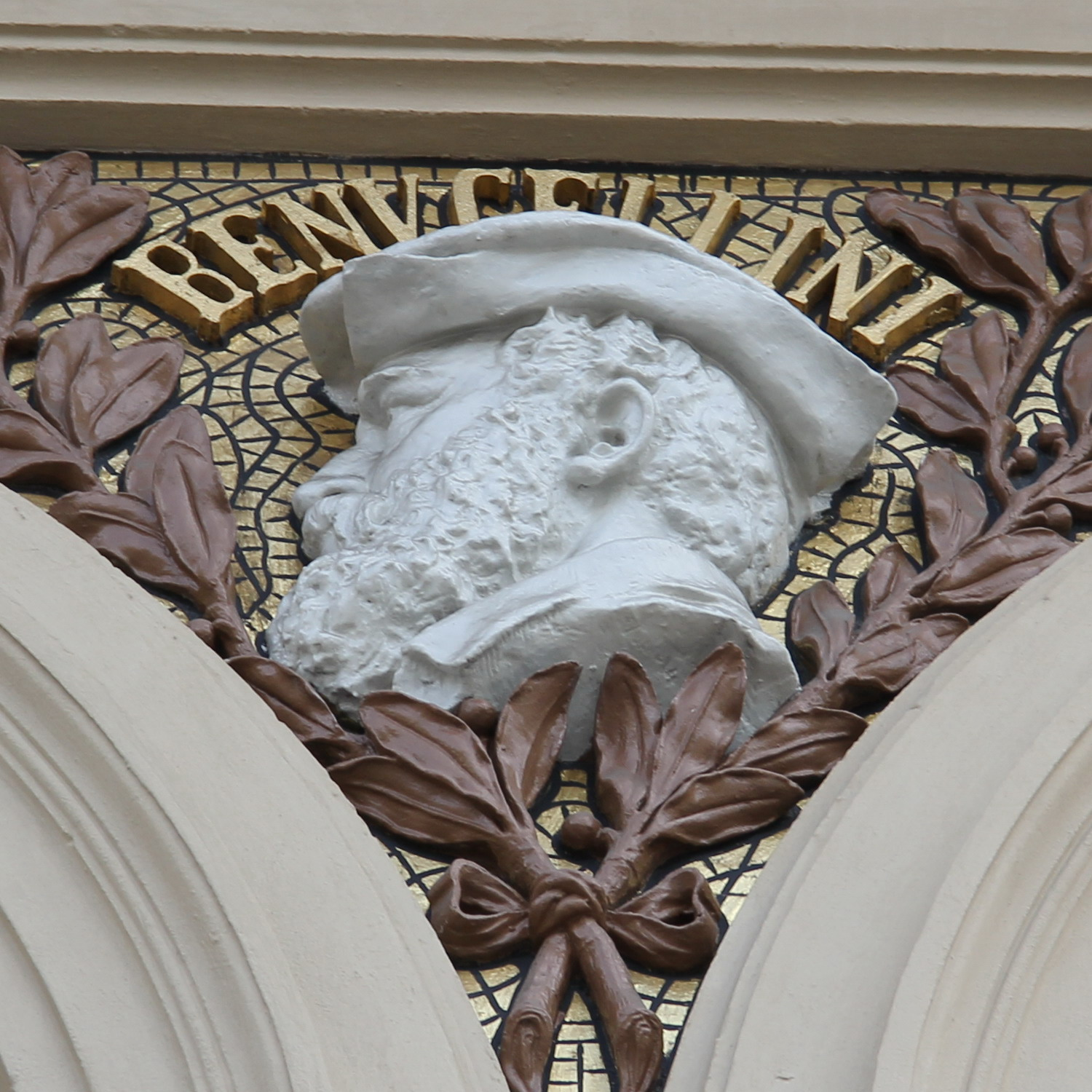 Medallion portrait sculptures on the main facade of the Ateneum Art Museum, Helsinki, Finland. Portrait of italian goldsmith and sculptor Benvenuto Cellini by Ville Vallgren, unveiled in 1887.